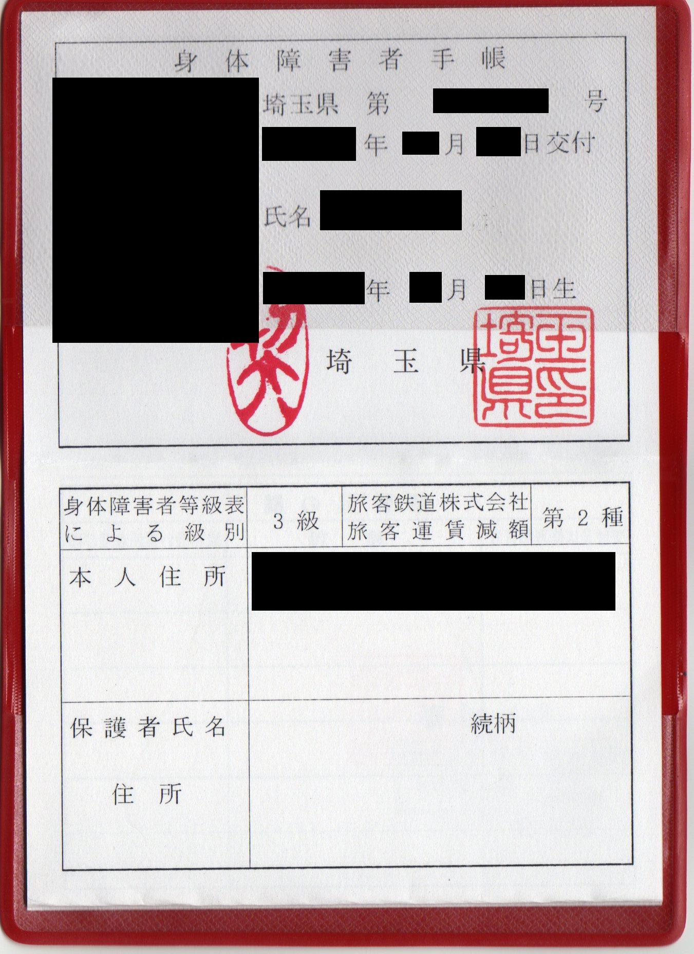 A Japanese identity document showing that the person is physically disabled.